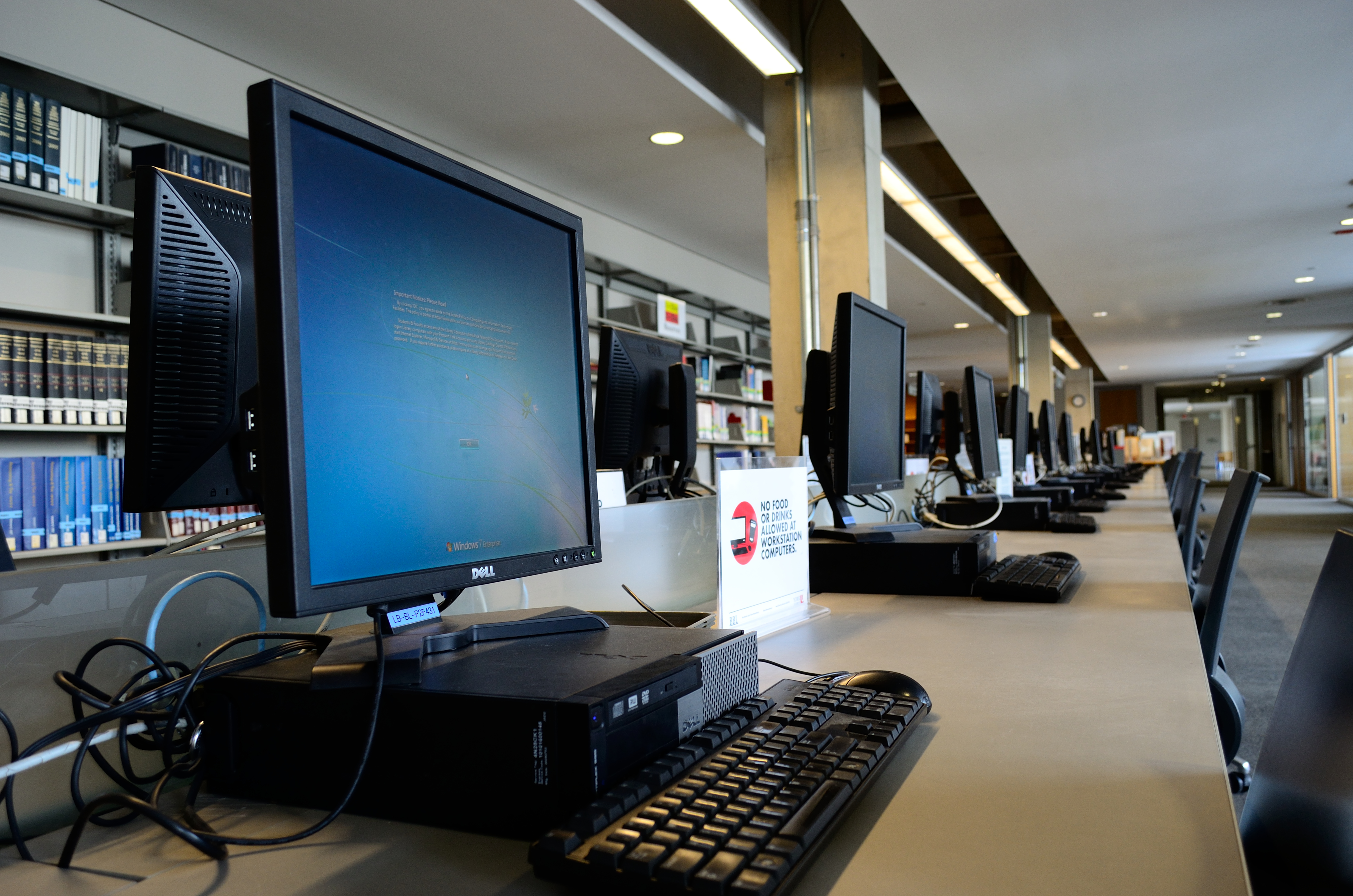 Computer workstations at Peter F. Bronfman Business Library, York University